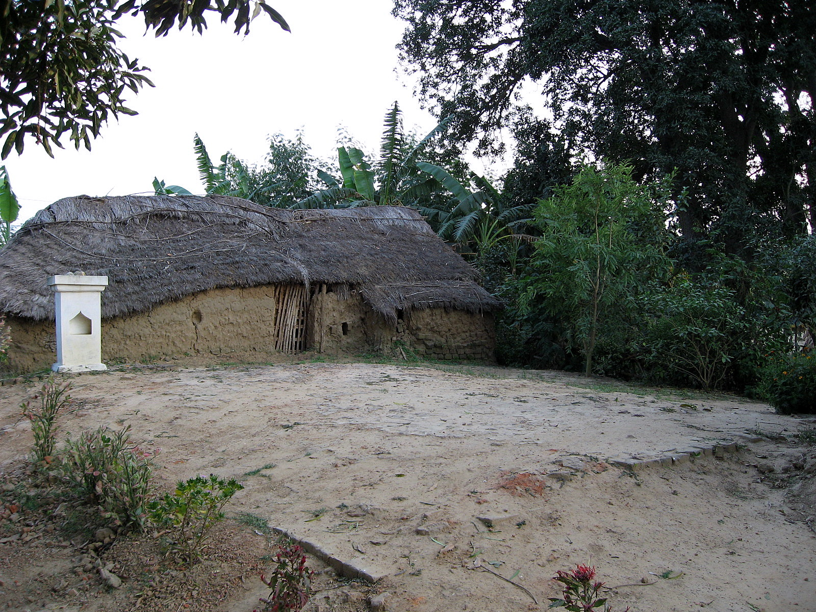 STupa with the remains of Visakha, the most outstanding Buddhist laywomen-supporter of Gautama Buddha. She lived in Sravasti (Savatthi). Her stupa is located in Sravasti, very close to the stupa of the 'Twin Miracle' and the stupas of Sariputta and Moggallana. Some mudbrick building is (newly) built on top of it. The stupa is part of a small hindu temple.